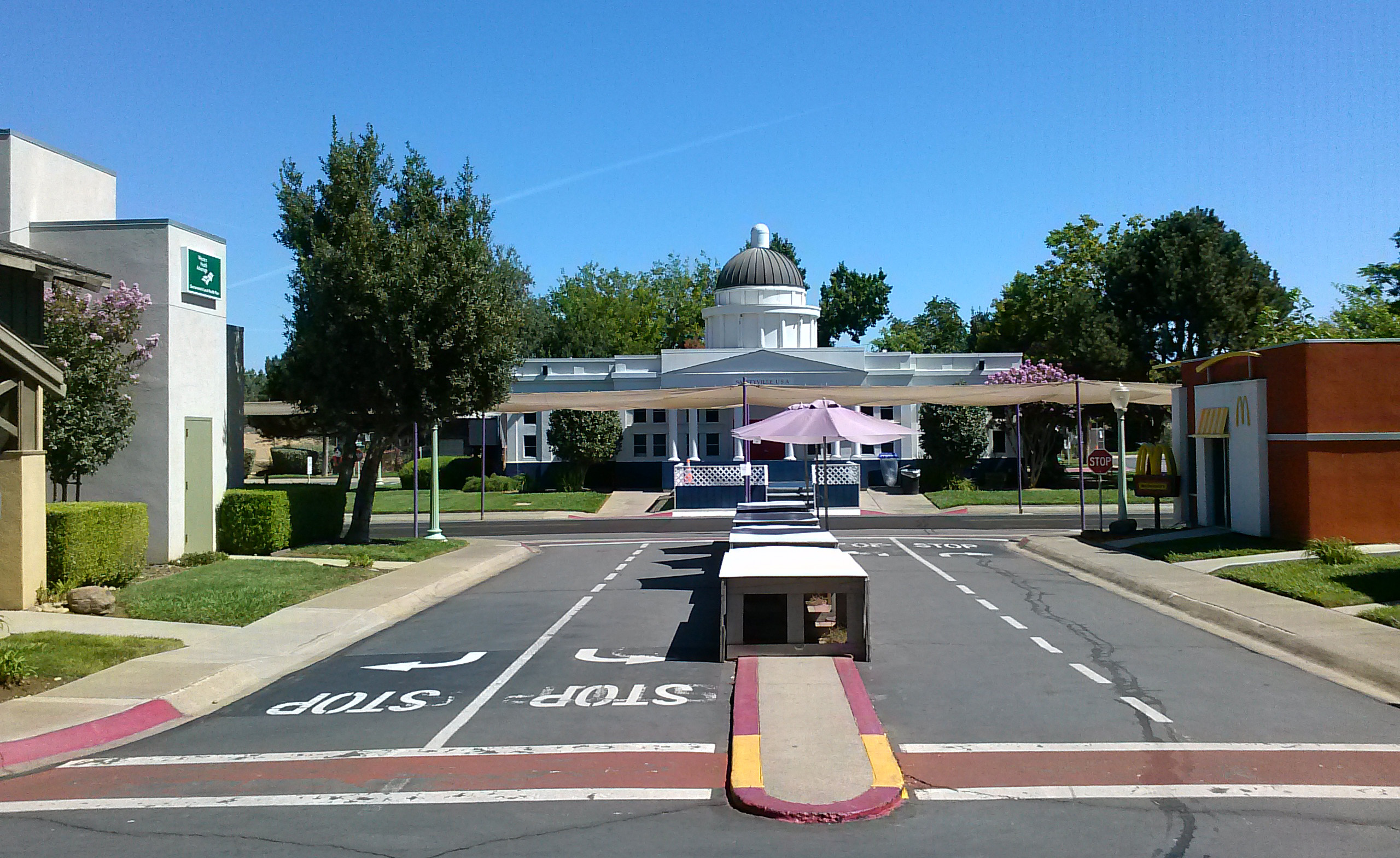 Safetyville USA Children’s Safety & Health Education Programs image of the miniature Capital Building at entrance of Safetyville on Bradshaw Road in Sacramento, California